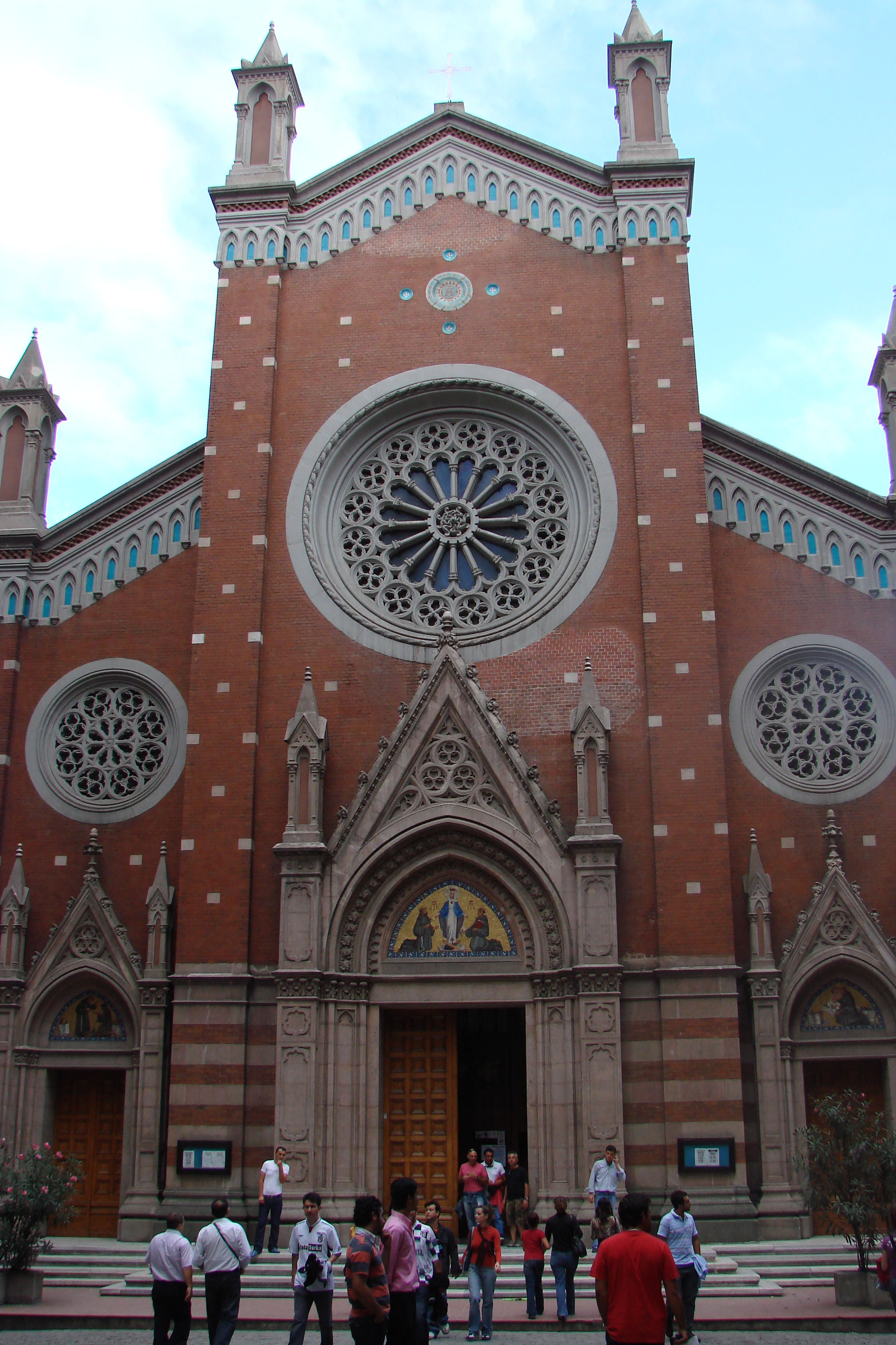 Picture taken by User:Baristarim of the entrance of the S. Antonio di Padova, Istanbul as seen from İstiklâl Avenue